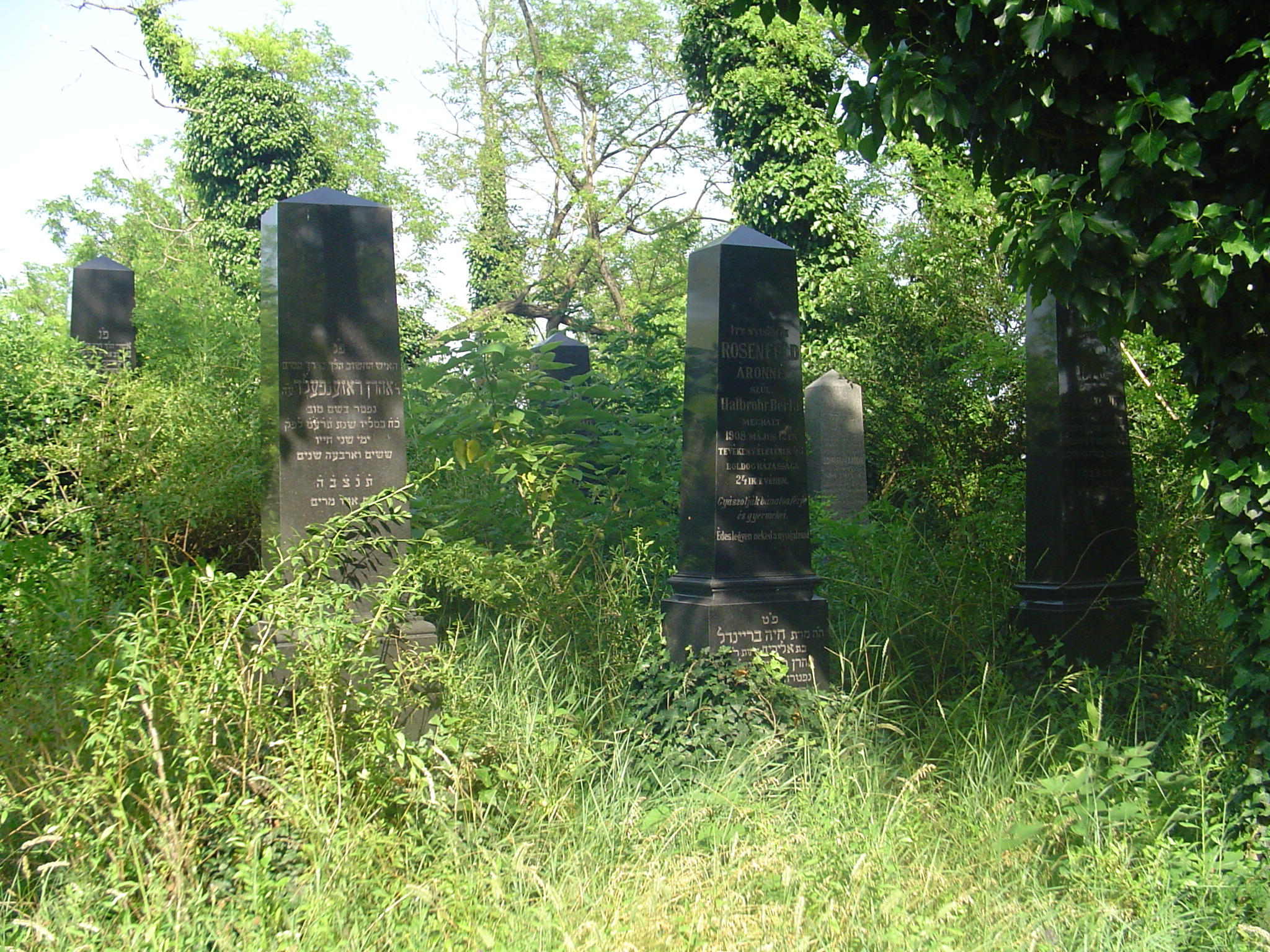 Jewish cemetary from Fülöpszállás (Hungary)